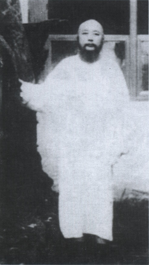 Liang Dingfen, scholar of the late Qing Dynasty.